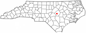 Category:North Carolina Dot Maps